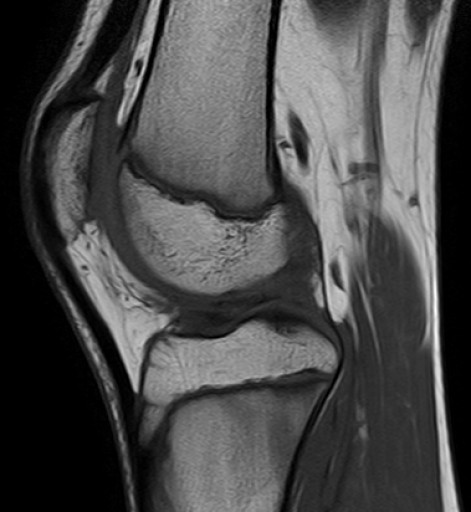 This image is part of a series which can be scrolled interactively with the mousewheel or mouse dragging. This is done by using Template:Imagestack. The series is found in the category Bucket-handle meniscus tear - case 002. Eingeschlagener Korbhenkelriss des Aussenmeniskus-Hinterhorns bei einem 14 jährigen Jungen. MRT.